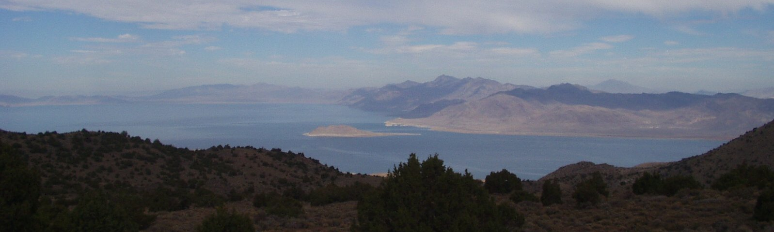 Pyramid Lake as seen from the Pah Rah Range, looking northeast. Anaho Island is in the center, the Pyramid is behind it. The Needles are barely visible on the far shore, on the left side.